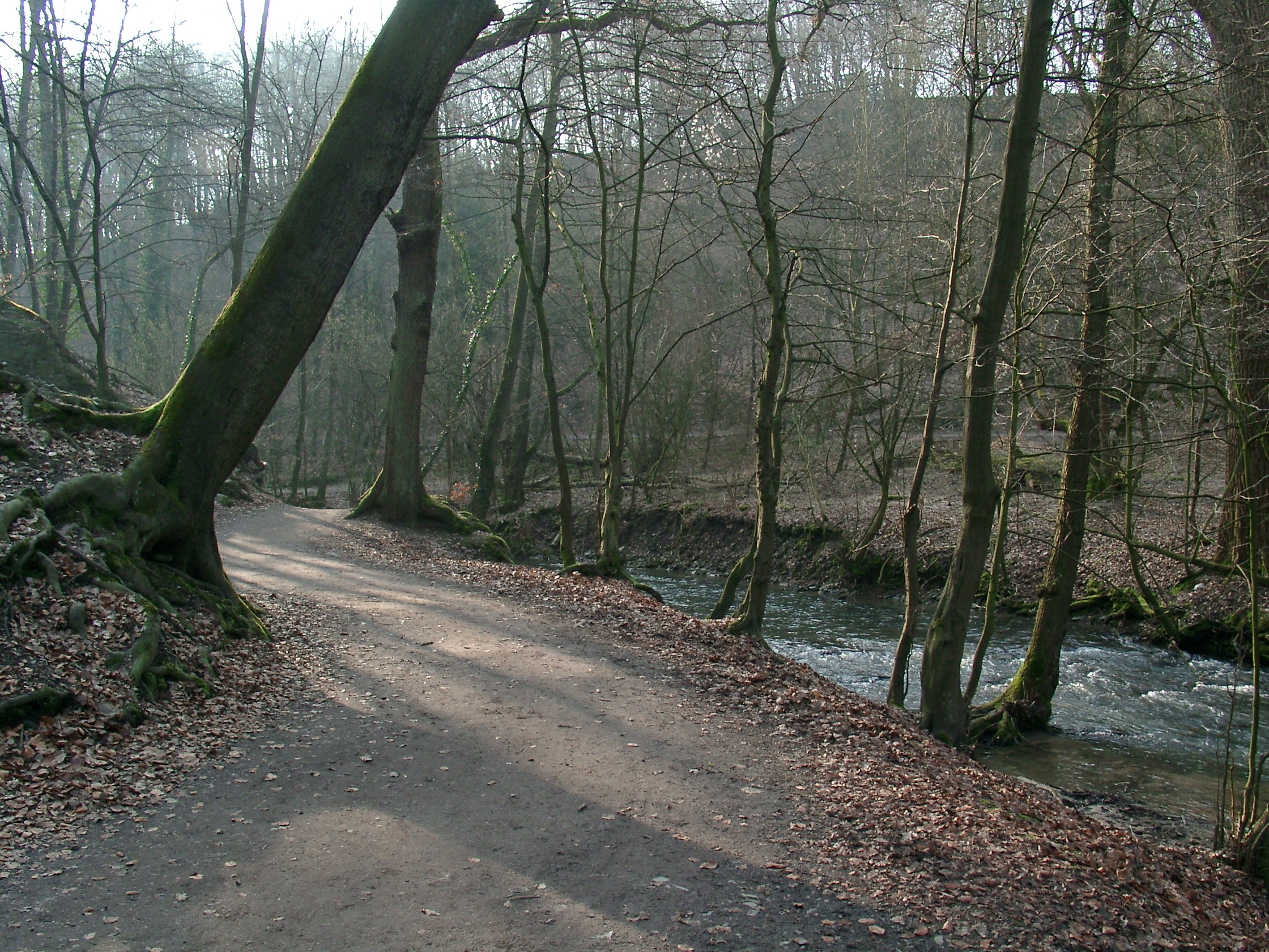 Morning sun rays in the forest of the Neanderthal Valley, a creek (the Düssel river) streaming nearby; "Neandertal" nature reserve in Mettmann and Erkrath